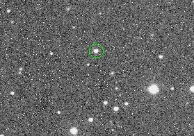 This image show the recovery of 1937 UB (Hermes) by Brian Skiff using the LONEOS 59-cm Schmidt telescope on 2003 Oct 15.